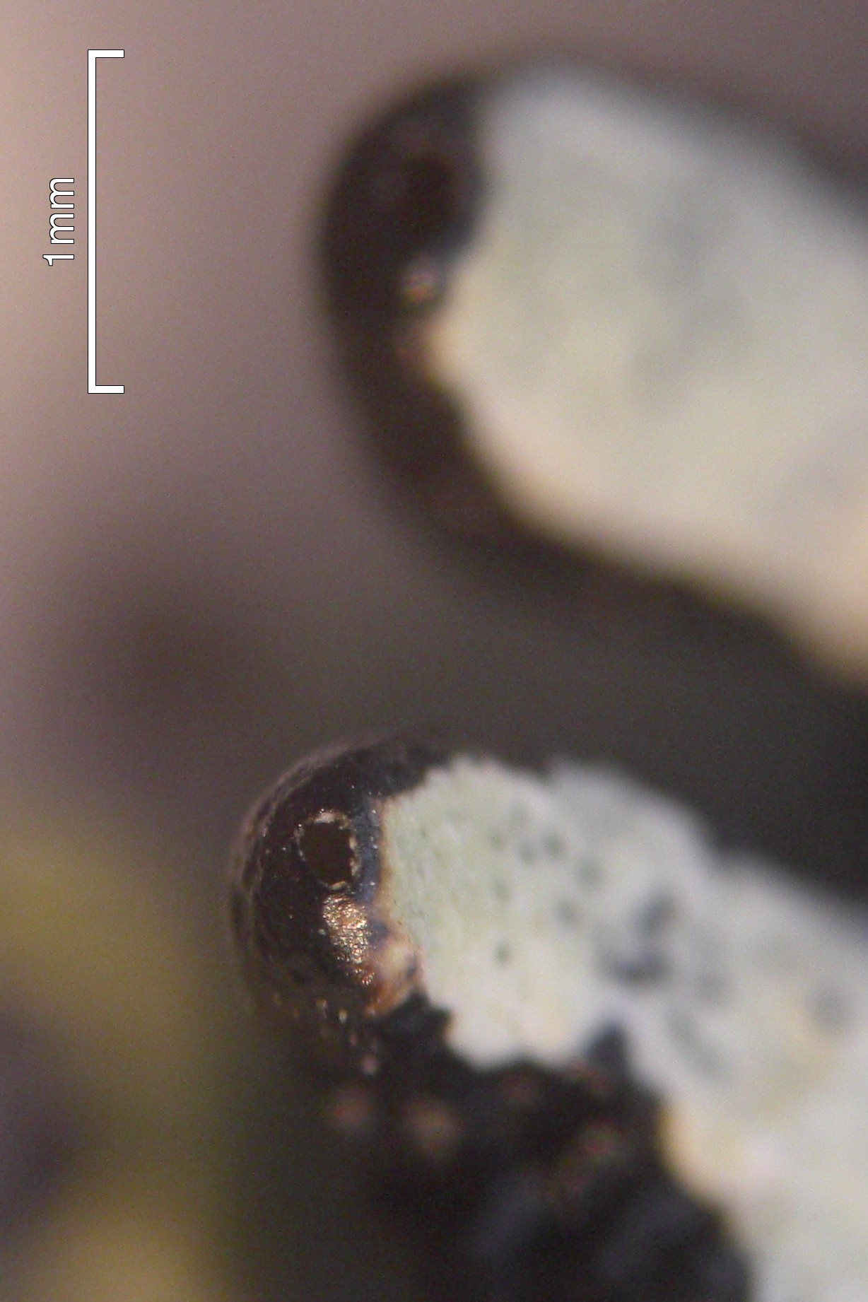 Hypogymnia occidentalis 20090521.23 Wells Gray Provincial Park, BC